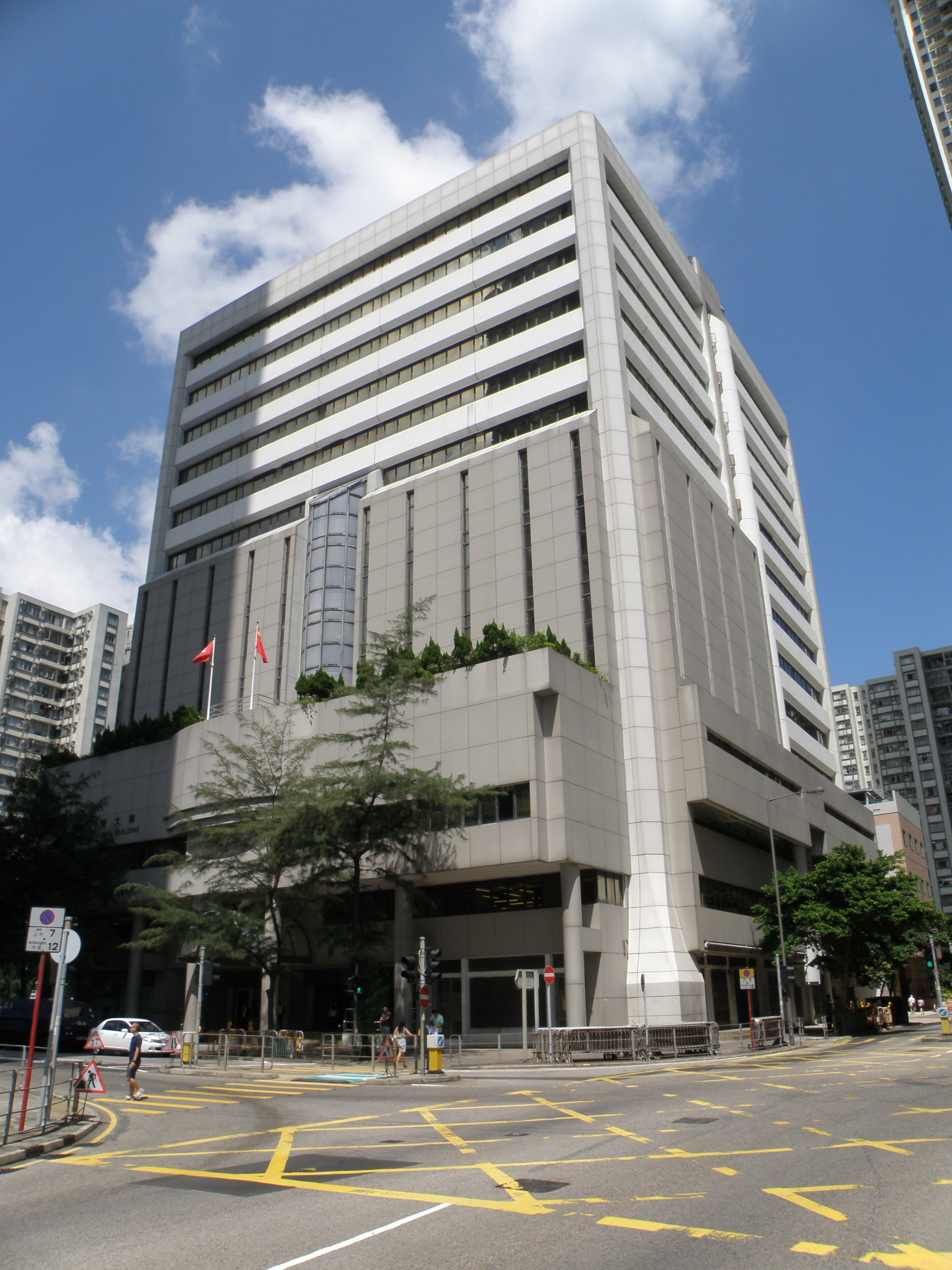 Eastern Law Courts Building in Sai Wan Ho, Hong Kong.